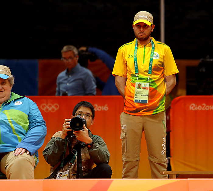 Iman Farzin at Riocentro - Pavilion 4 on August 12, 2016 in Rio de Janeiro, Brazil.